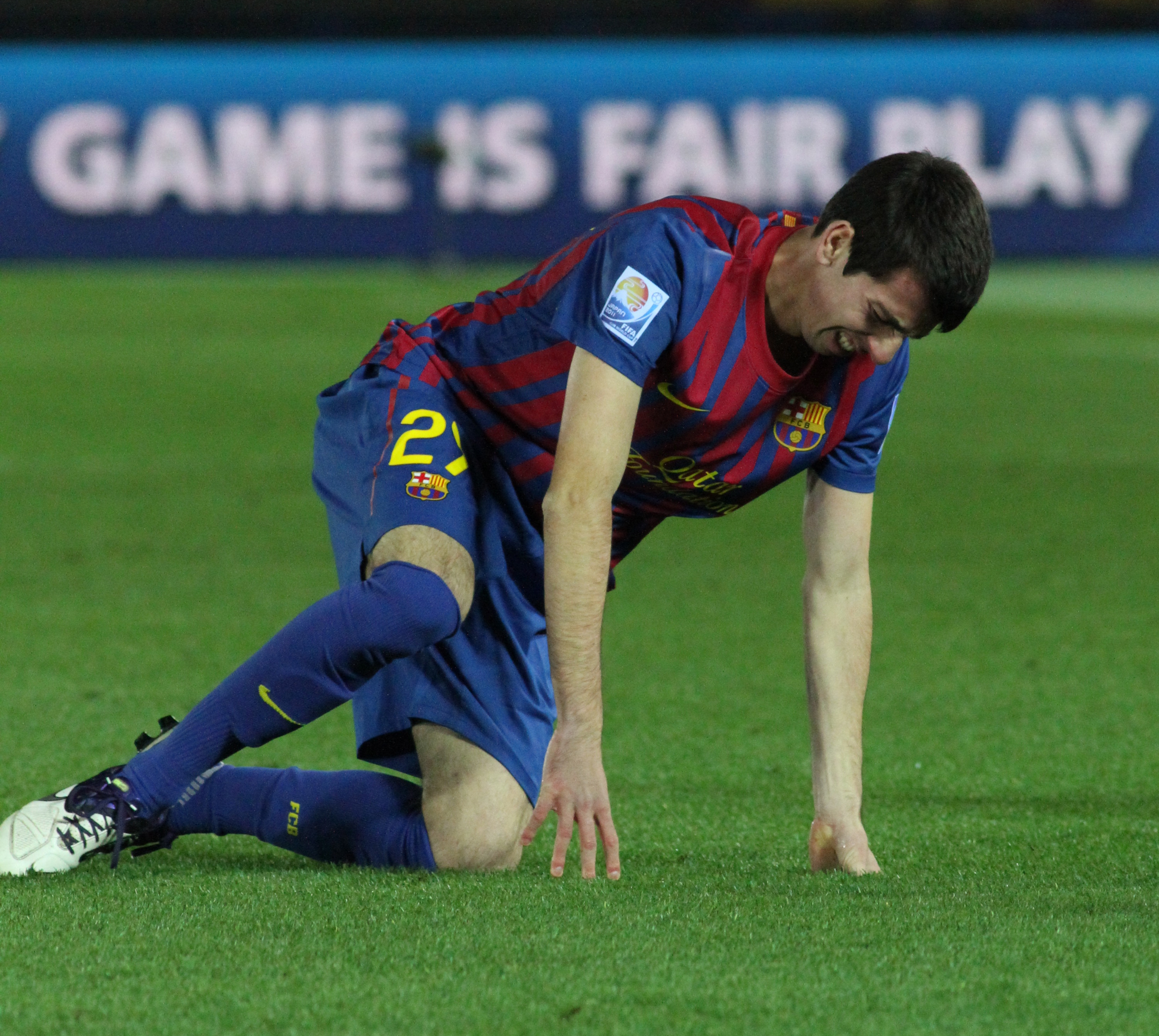 Isaac Cuenca during the final match of the 2011 FIFA Club World Cup.